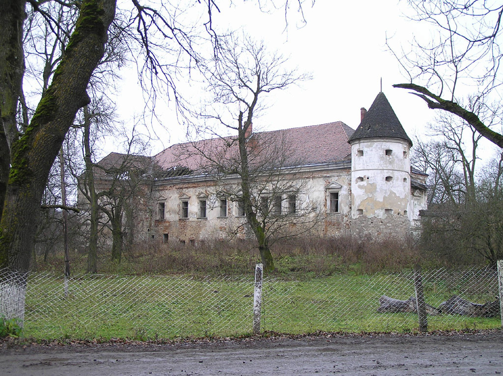 Pomoriany Castle